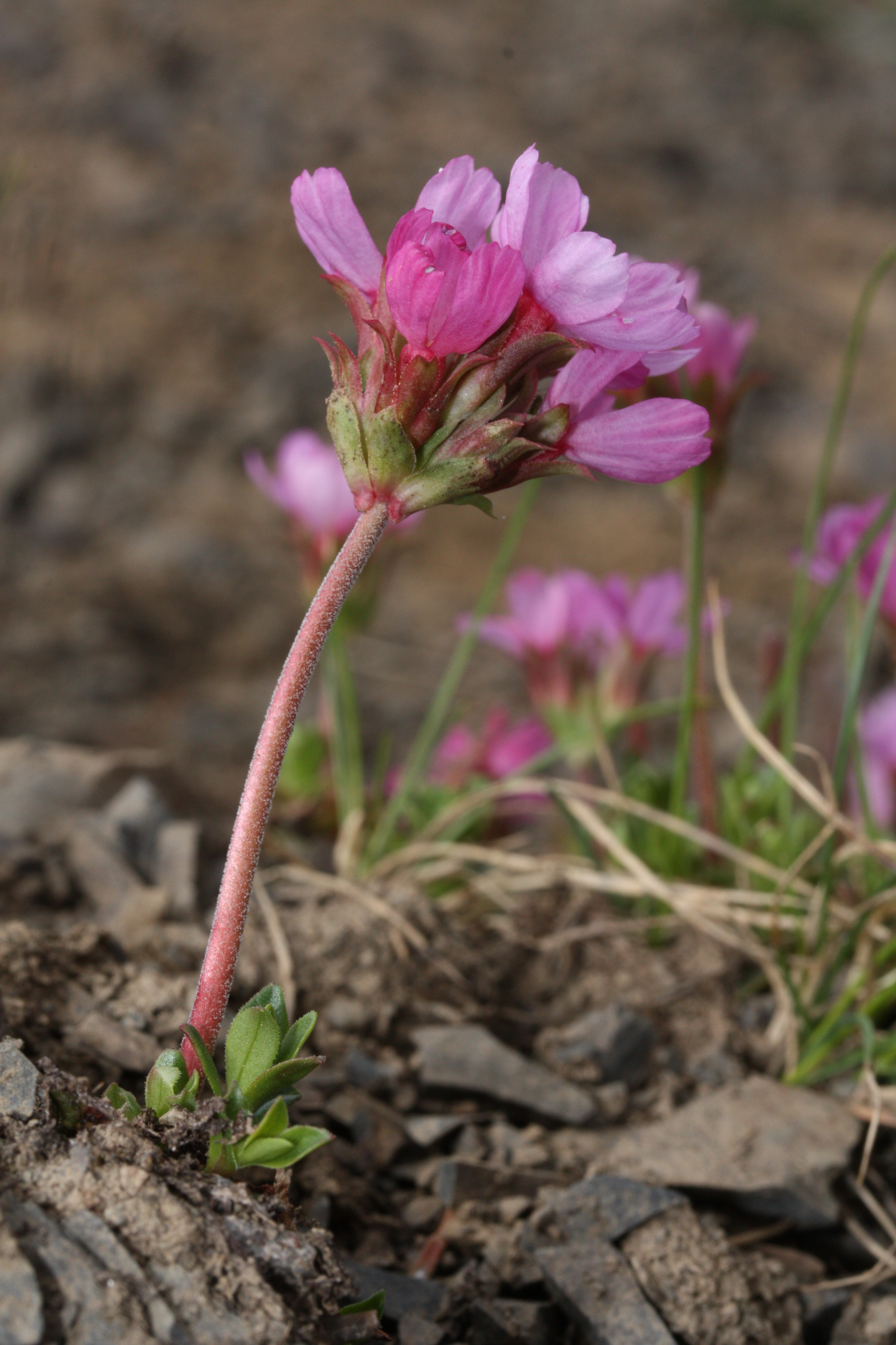 Smooth Douglasia